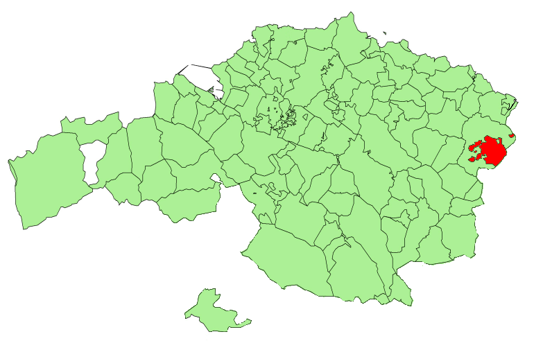 Etxebarria municipality in the province of Biscay